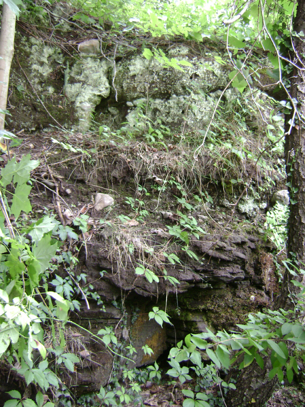 Section of the Boonton Formation exposed in a road cut in Pequannock Township. The image shows three distinct layers within this section of the formation. The bottom layer appears to be composed of flaggy purple siltstone and mudstone, while the middle layer is composed of conglomerate (mainly large pebbles surrounded by purple sandstone/siltstone). The top layer appears to be either a carbonate bearing siltstone or some sort of irregular carbonate concretion with a light gray coloration.